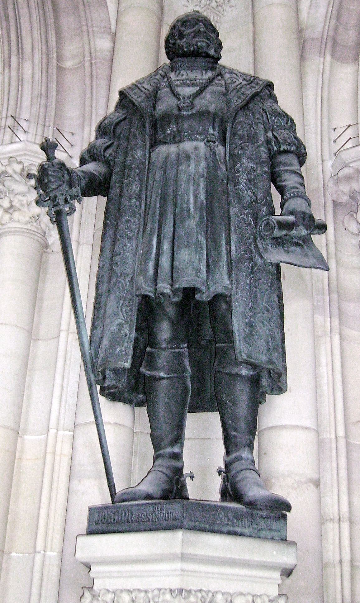 Gedächtniskirche (Memorial Church) in Speyer, Germany